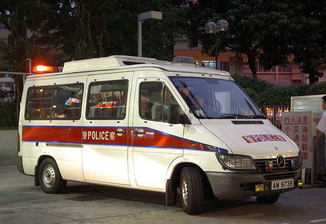 A Mercedes-Benz Sprinter 314 of Hong Kong Police. Copyright Dennis Chan